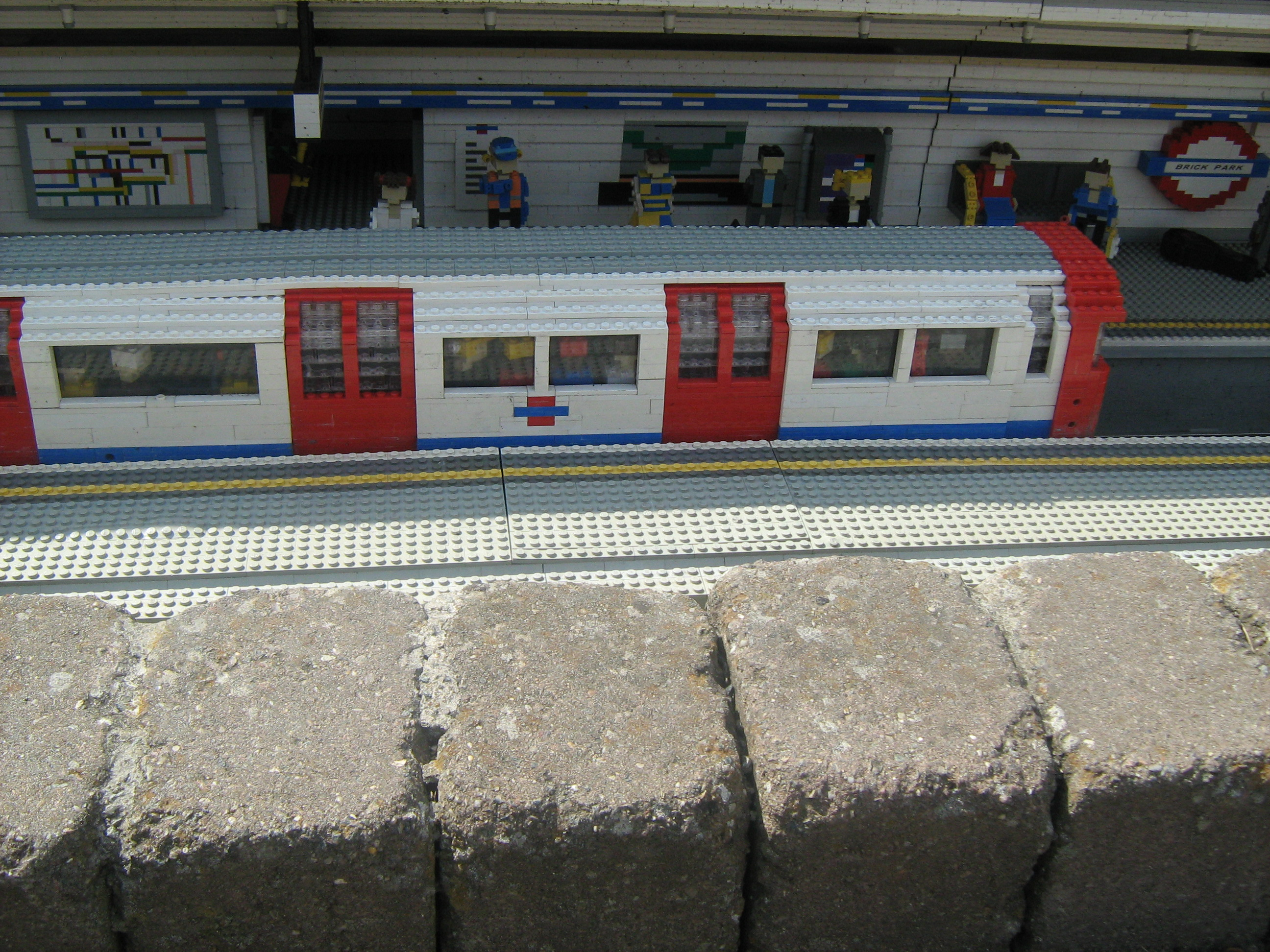 Model of a London Underground carriage in Miniland, Legoland Windsor